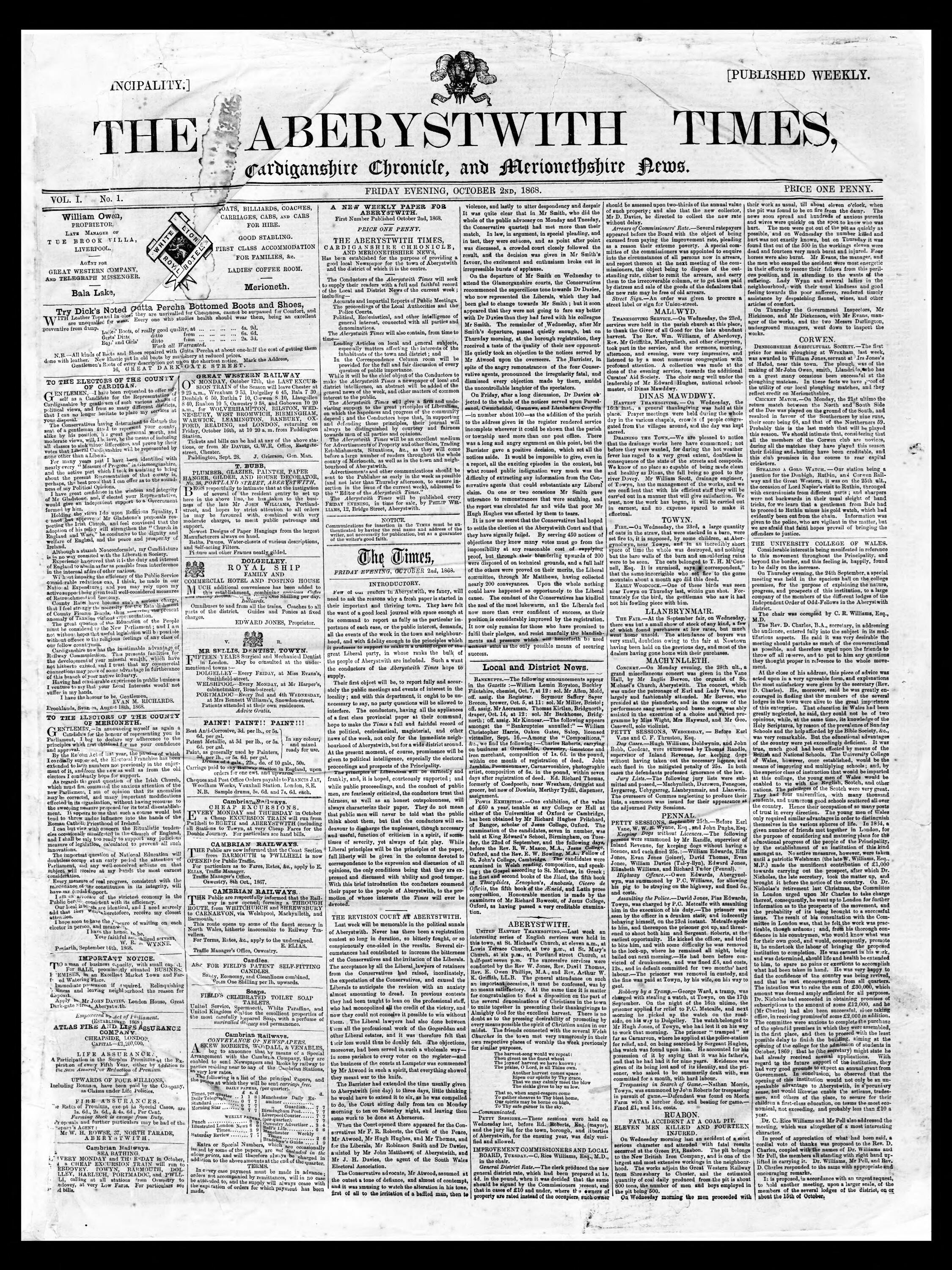 Front page of the earliest surviving copy of the Welsh newspaper The Aberystwyth Times